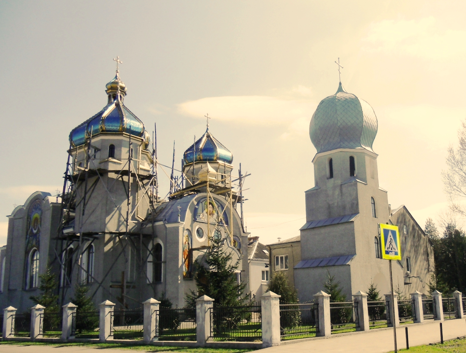 Ukrainian Orthodox Church of St.Nicholas the Wonderworker of the Kyivan Patriarchate. Urban-type settlement Velykyi Liubin, Lviv Oblast.